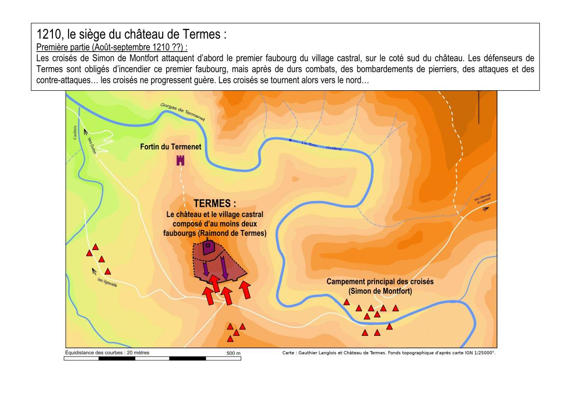 A try to locate and explain some things about the siege of Termes in 1210, with the first steps : the arrival of Simon IV de Montfort, the first attacks on the south side of the fortified village of Termes etc... (first map of two).